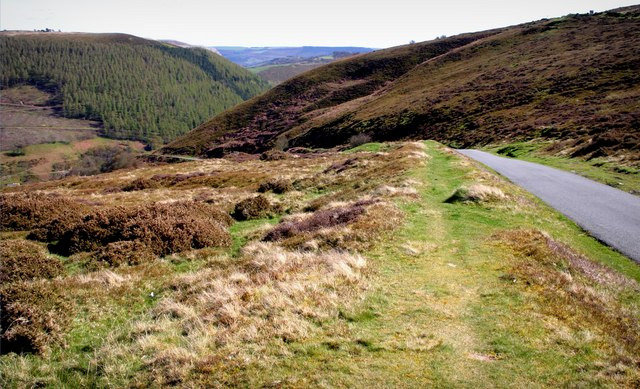 Summit of the Horseshoe Pass. View from the Ponderosa Cafe looking north in the direction of Llangollen.